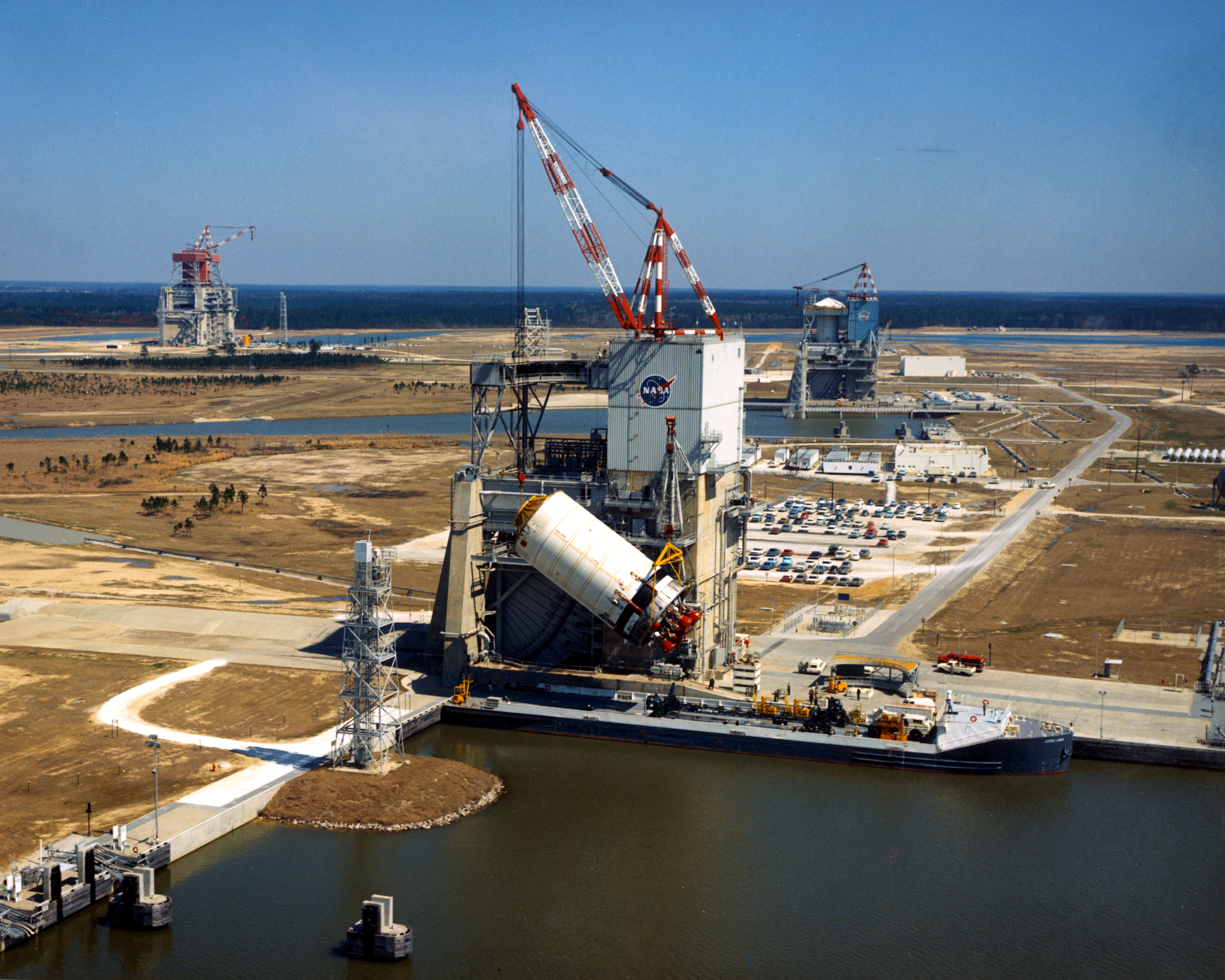 The S-II stage of the Saturn V rocket is hoisted onto the A-1 test stand in 1967 at the Mississippi Test Facility, now the Stennis Space Center. This was the second stage of the 364-foot-tall Moon rocket. The second stage was powered by five J-2 engines which developed one million pounds of thrust or the equivalent to 21 million horsepower. Seen at bottom is the NASA barge Little Lake.